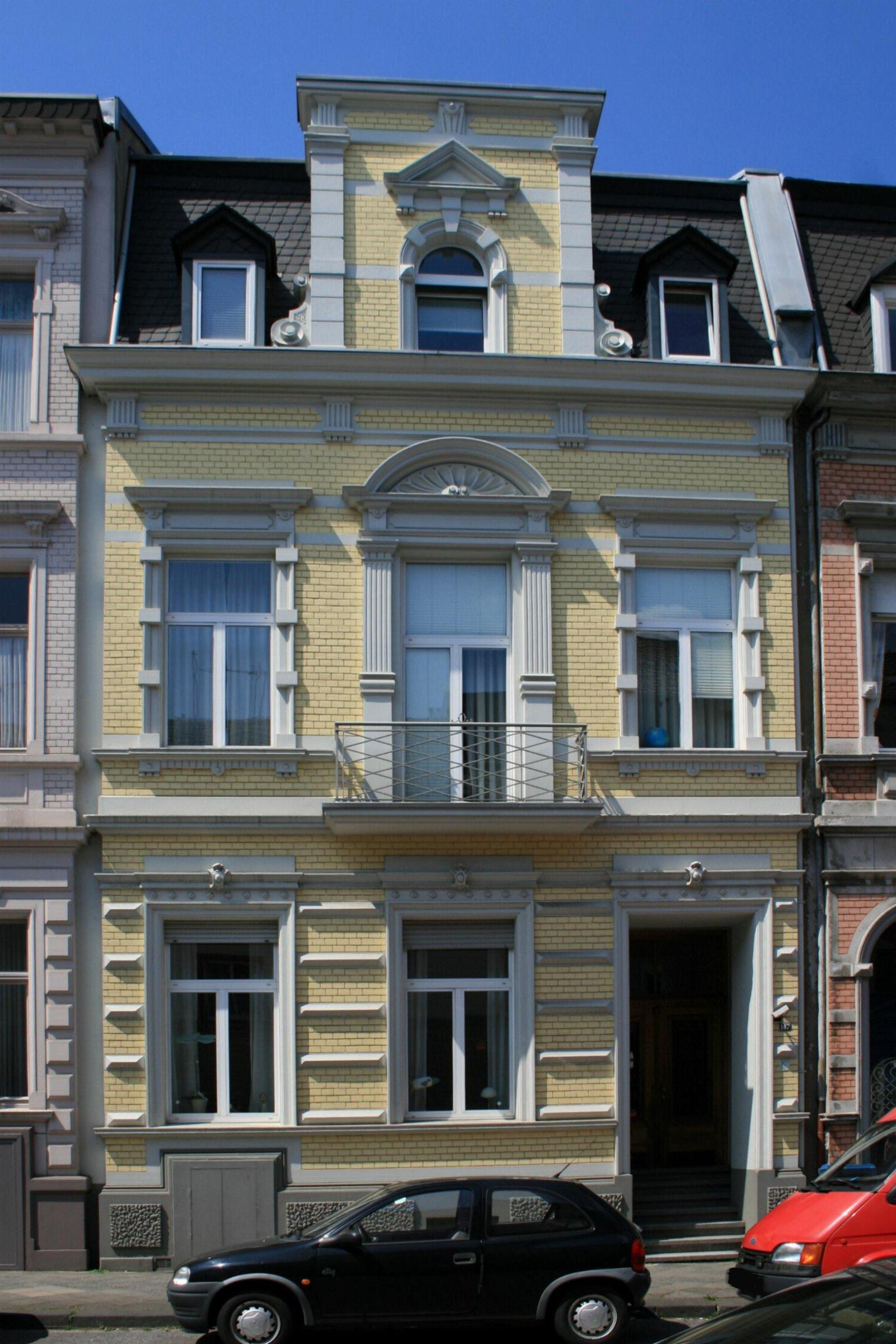 Cultural heritage monument No. K 068 in Mönchengladbach